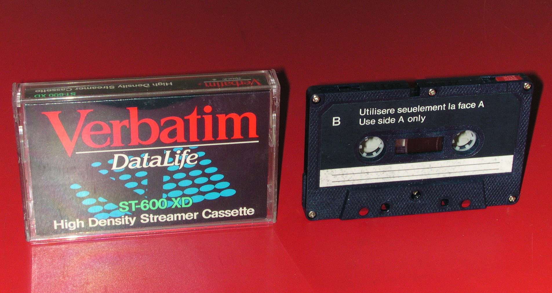 Verbatim ST 600 XD High Density Streamer Cassette for use with 150-160 MB capacity systems